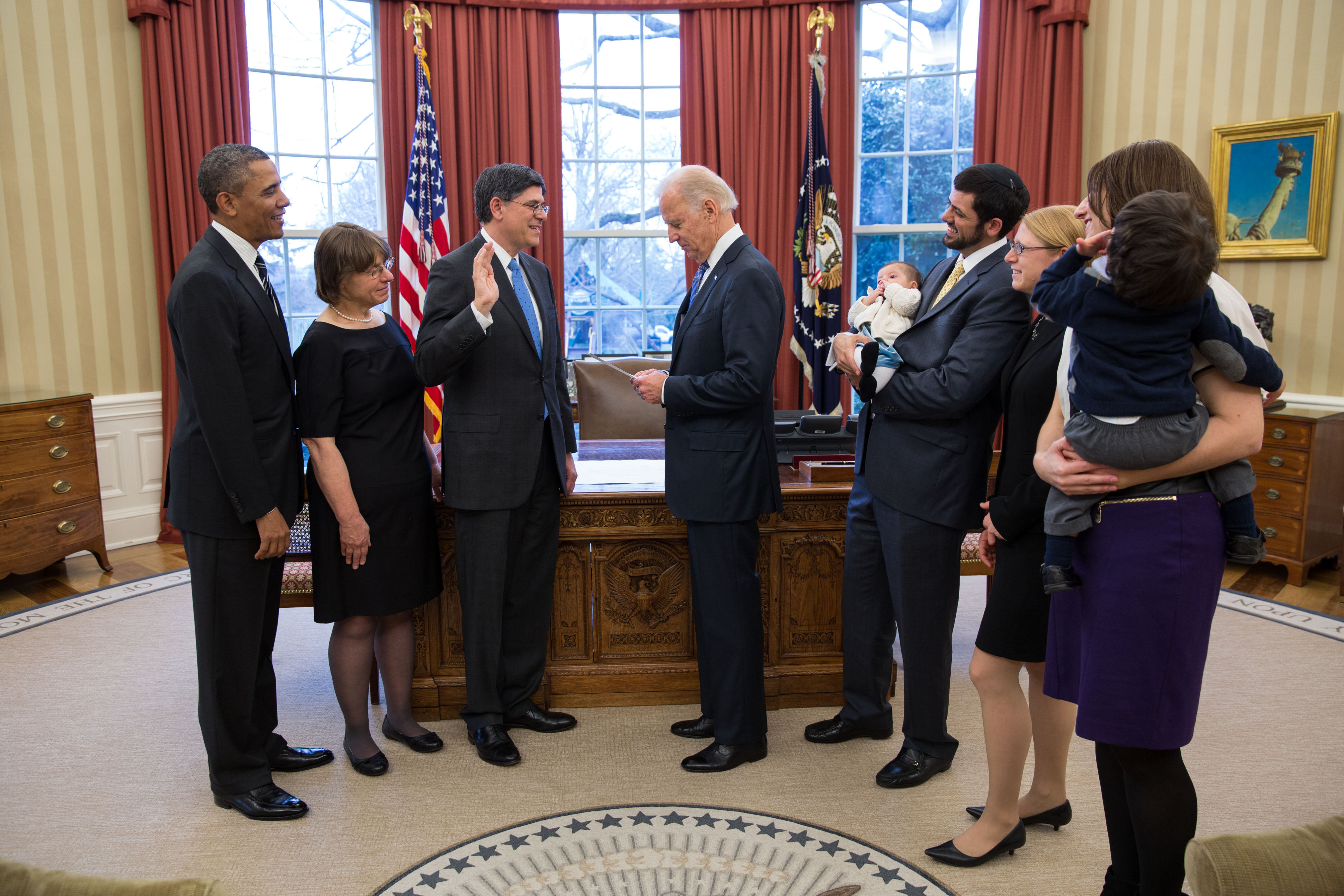 United States President Barack Obama watches as Vice President Joe Biden swears in Treasury Secretary Jack Lew during a ceremony in the Oval Office on 28 February 2013. Lew's family, pictured from left, are: wife Ruth Schwartz; granddaughter Eliora Lew; son Danny Lew; daughter Shoshana Lew; daughter-in-law Zahava Lew; and grandson Moshe Lew.